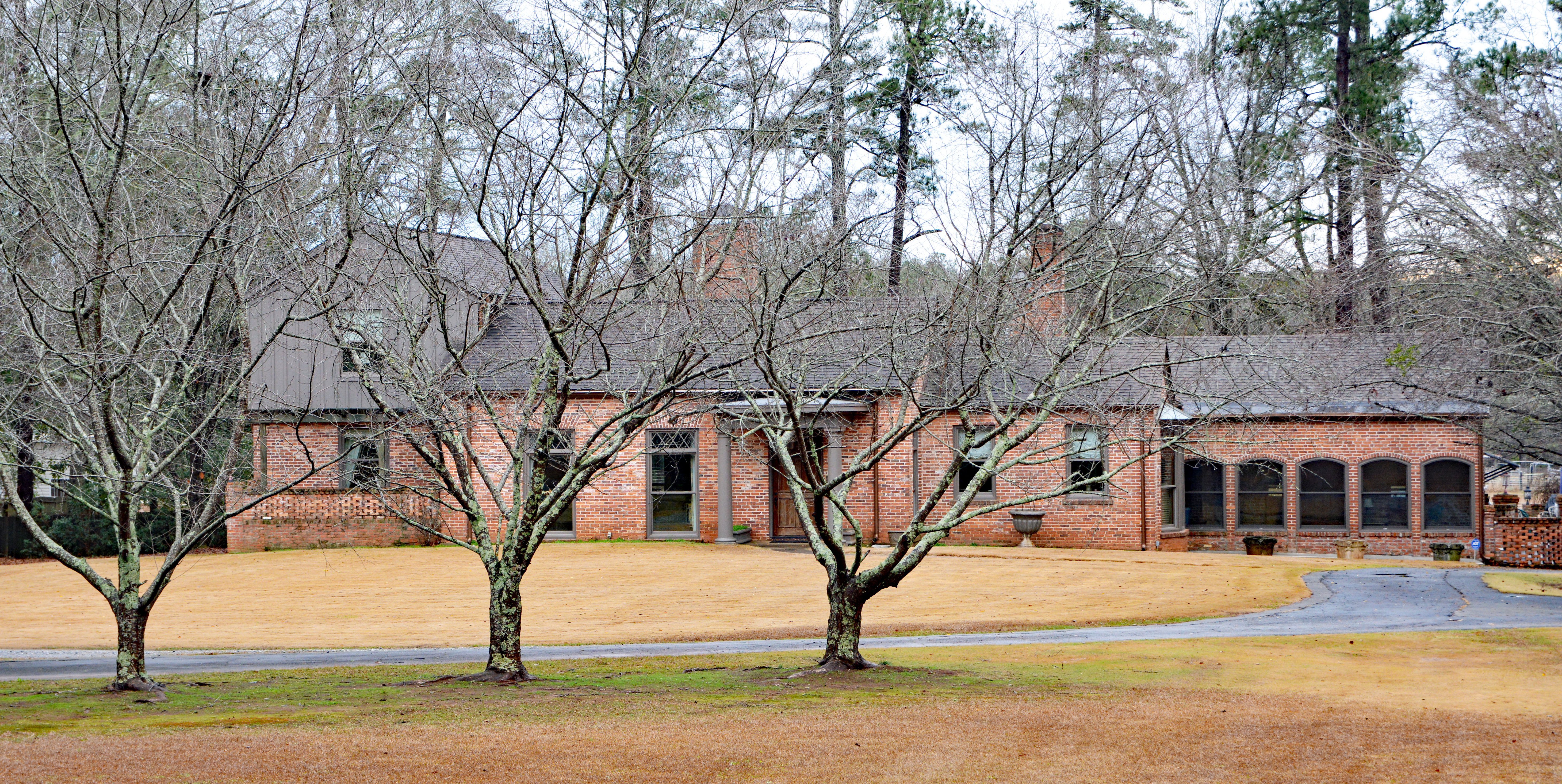 The Herman and Allene Shaver House, Wayside, Georgia, U.S. (Jones County)